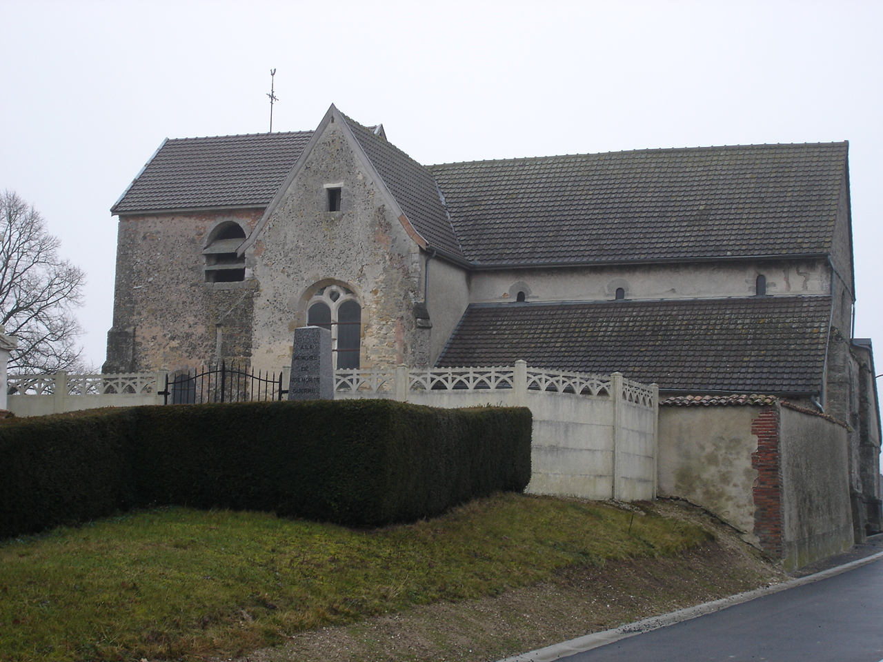 Church of Trécon (Marne - France)